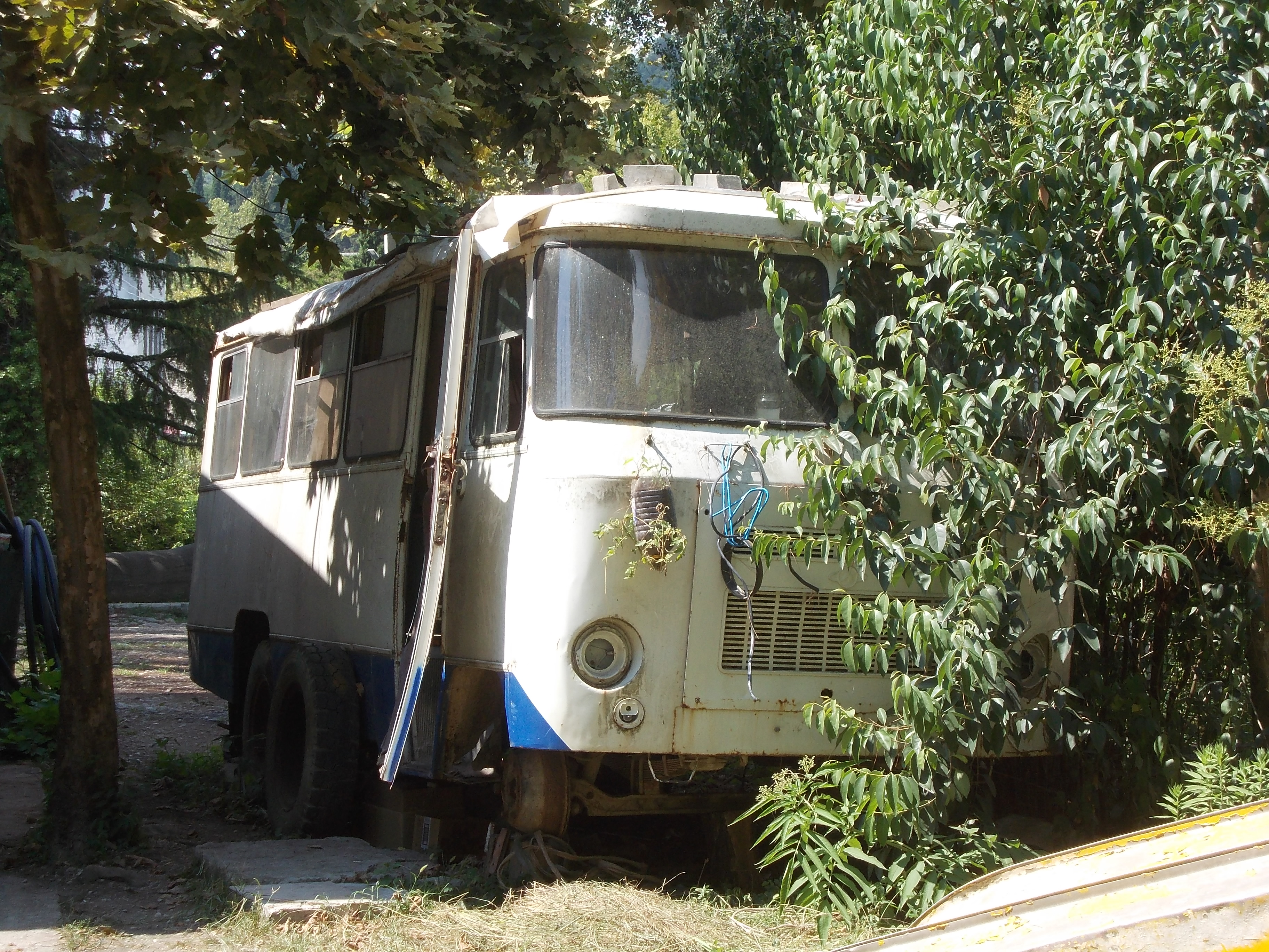 Kuban' G1A bus in New Athos, Abkhazia.